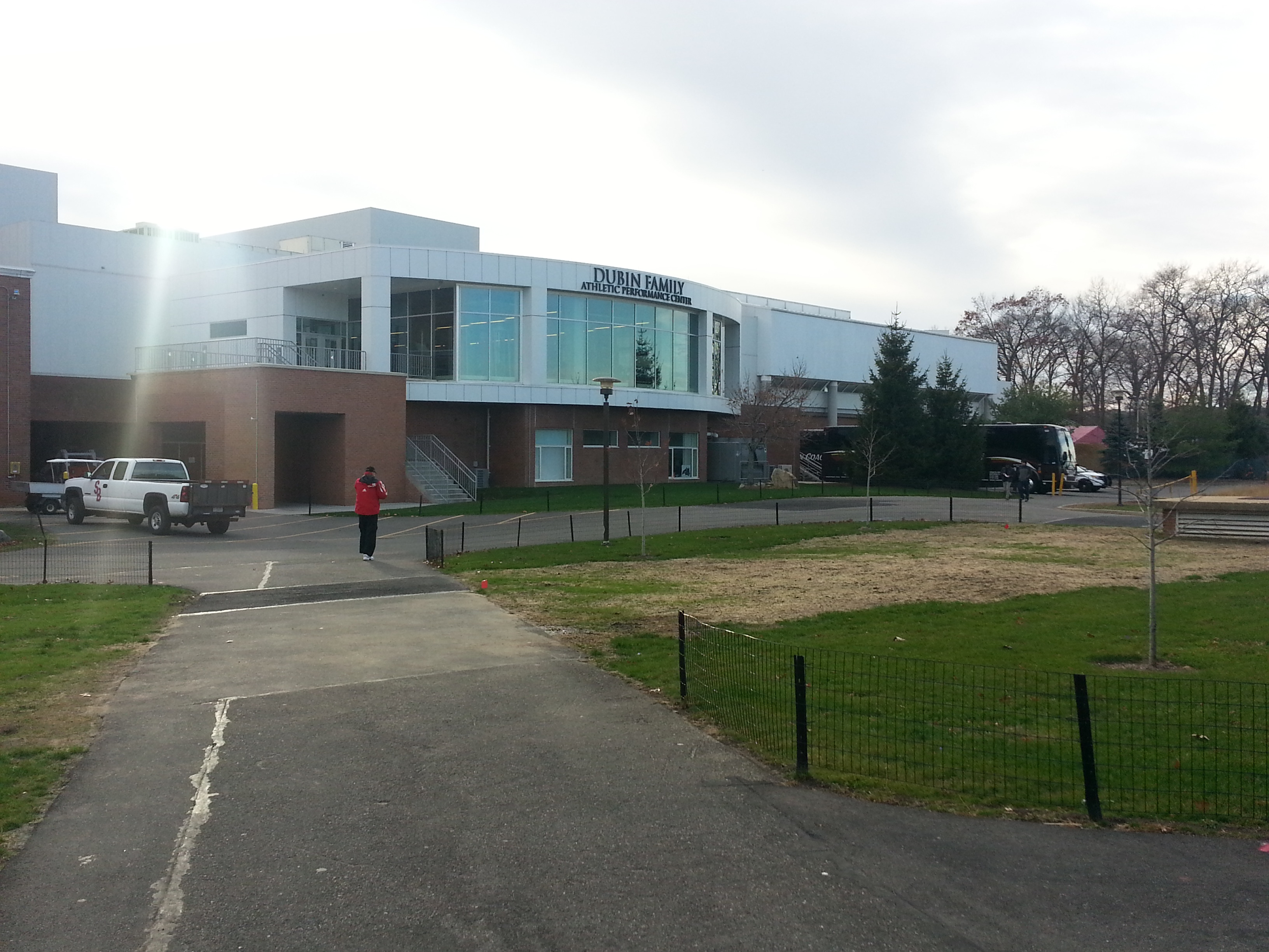 A photograph of the Dubin Family Athletic Performance Center at the State University of New York at Stony Brook in the United States. Athletic training facility used by the collegiate program Stony Brook Seawolves